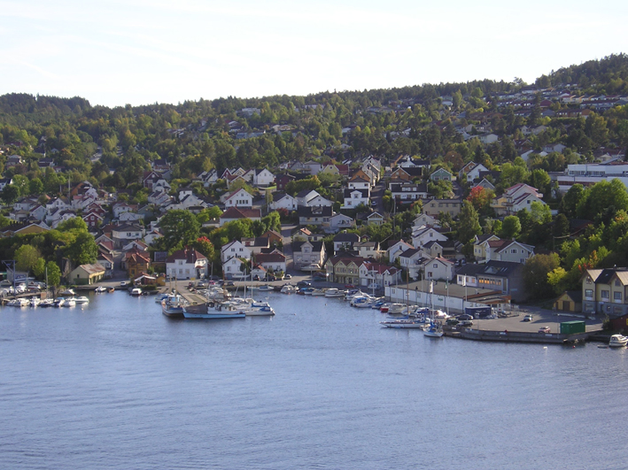 Stathelle in Bamble, Telemark. Photo: H. E. Straume